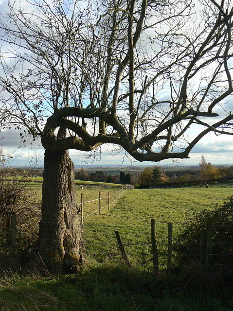 Twisted tree Near Stockhill Farm, looking out over the Trent valley. Not so much that the tree is twisted, but that it has lost its crown, and retains only a couple of its lower branches, possibly to a lightning strike.